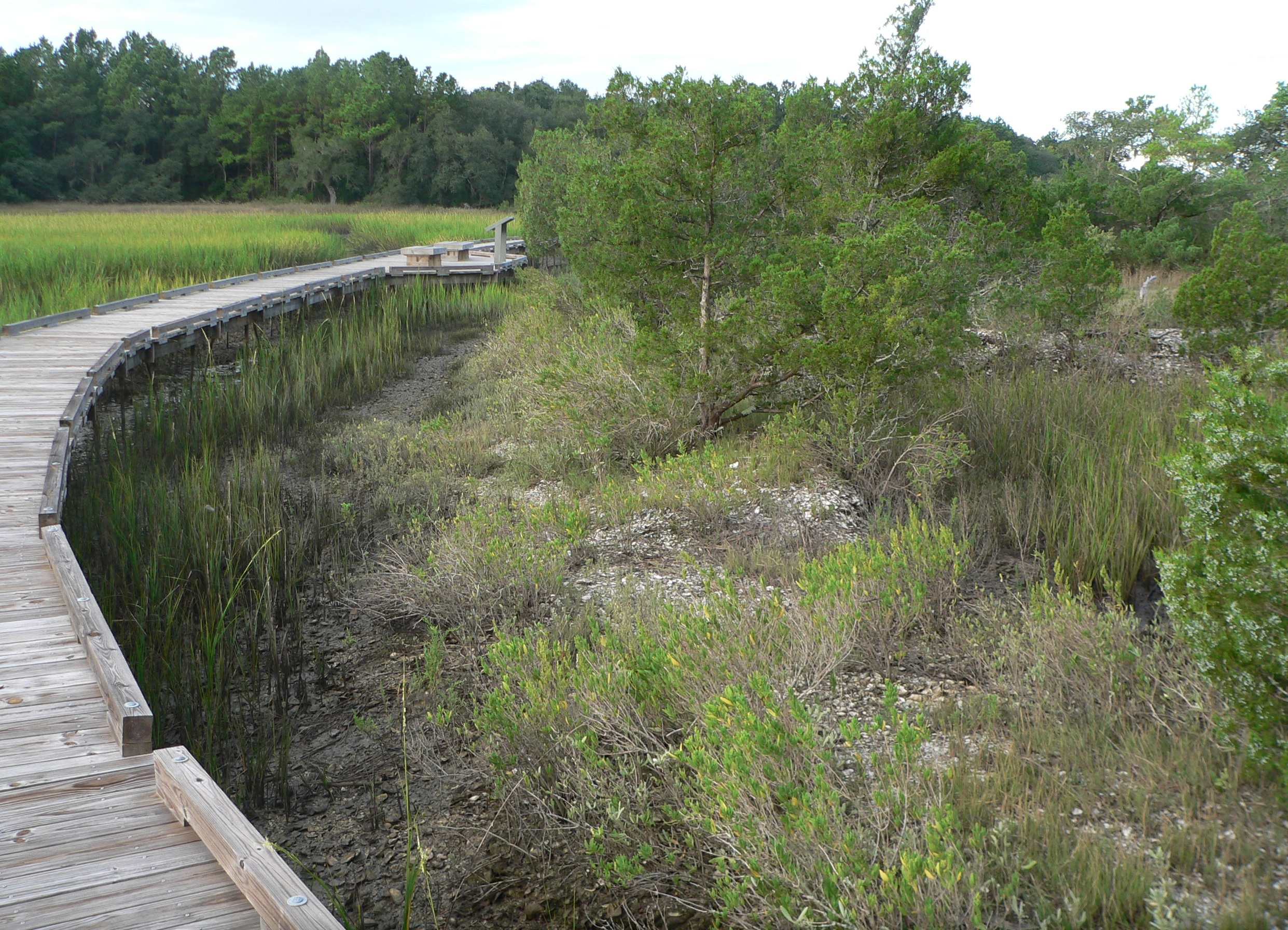 Sewee Shell Ring, located south of Awendaw, South Carolina in Francis Marion National Forest. Southeast side, looking southwest along boardwalk.